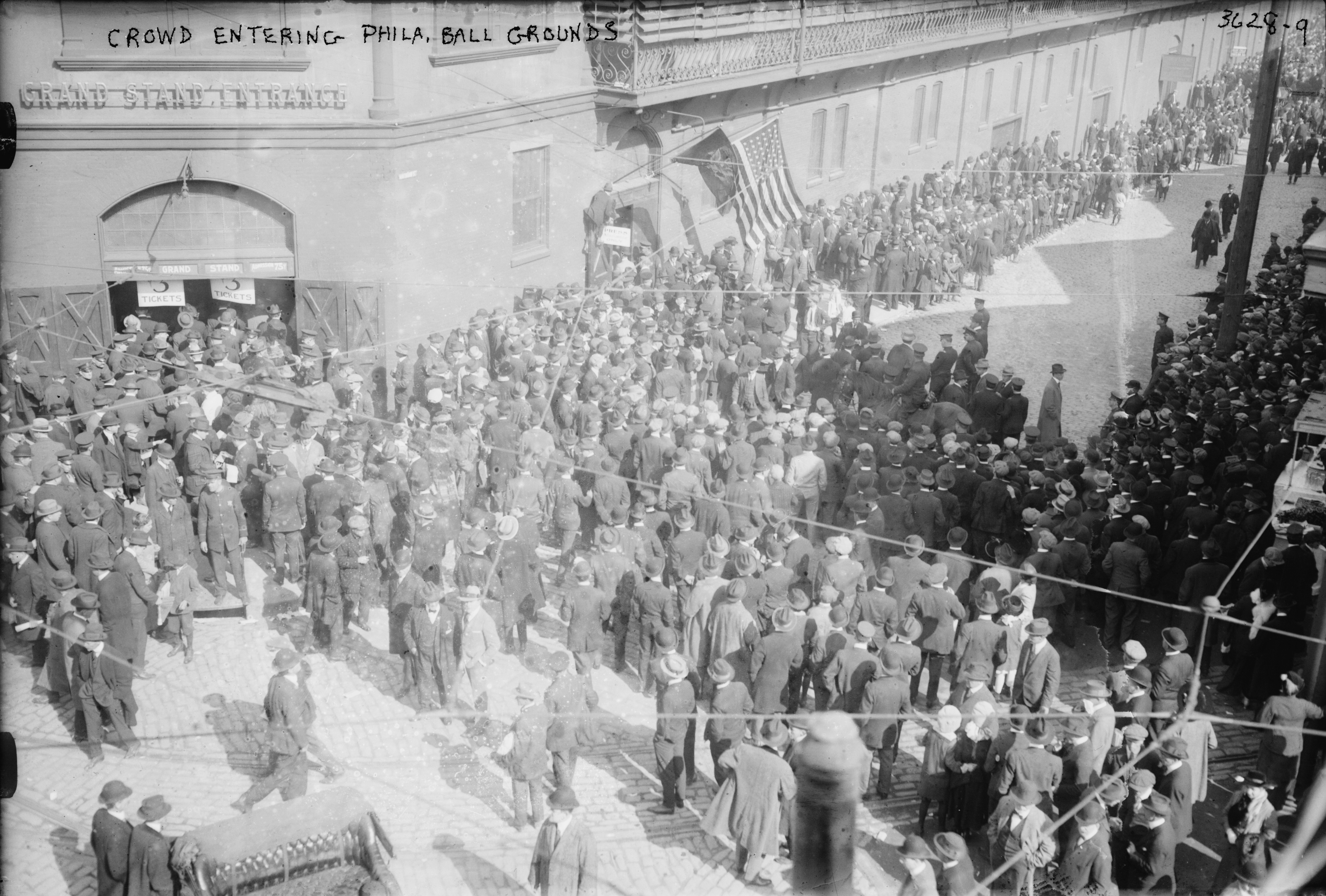 Crowd entering Baker Bowl, Philadelphia for a baseball game. Photo courtesy of Library of Congress, George Grantham Bain Collection.